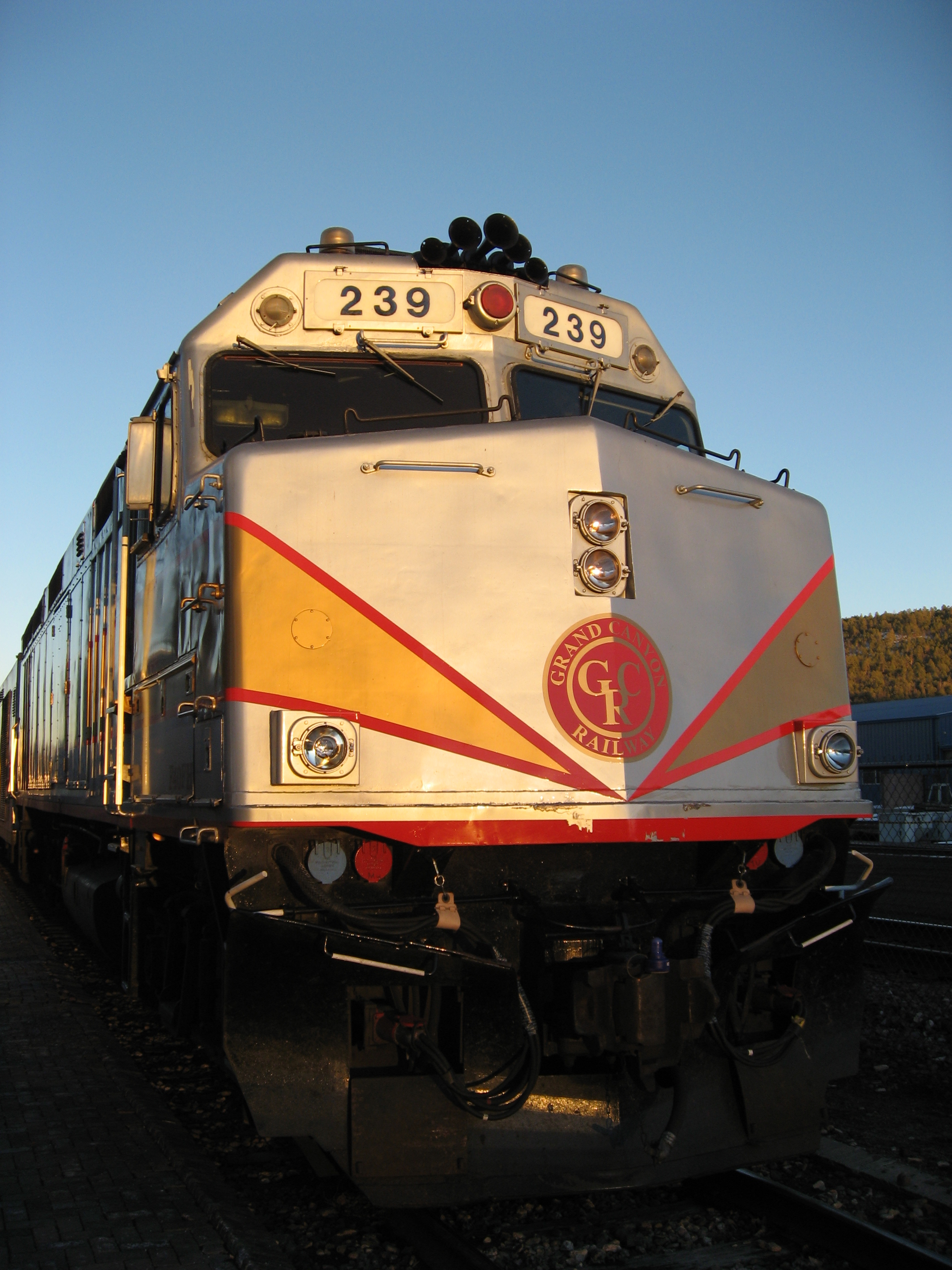 EMD F40PH diesel-electric locomotive of the Grand Canyon Railway in Arizona.